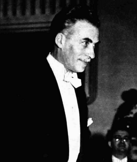 Italian conductor Mario Rossi